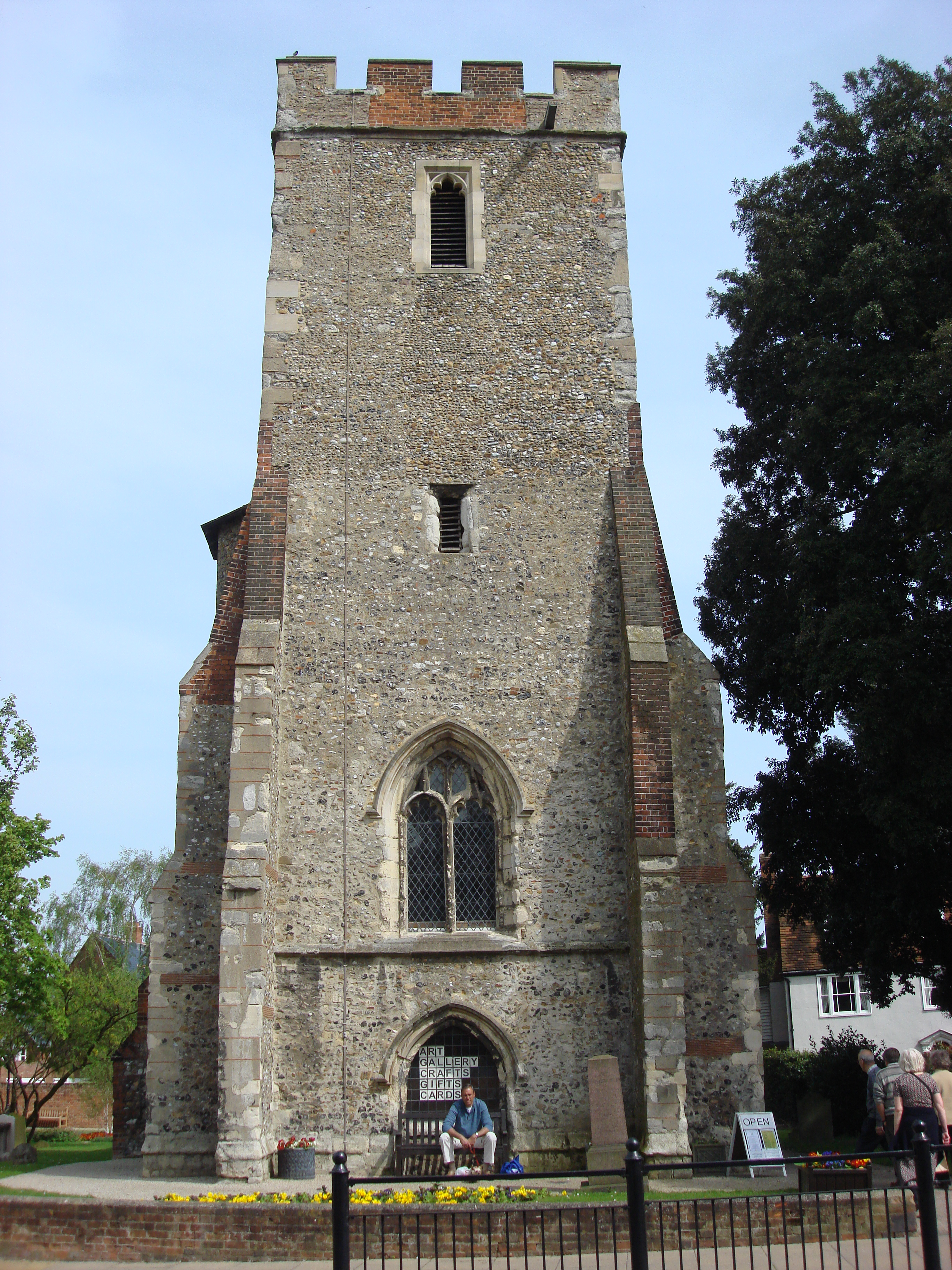 Tower, St. Peter's Church, Maldon. In the seventeenth century Thomas Plume started the Plume Library to house over 7,000 books printed between 1470 and his death in 1704; the collection has been added to at various times since 1704. The Plume Library is to be found at St. Peter's Church. Only the original Tower survives, the rest of the building having been rebuilt by Thomas Plume to house his library (on the first floor) and Maldon Grammar School (on the ground floor)